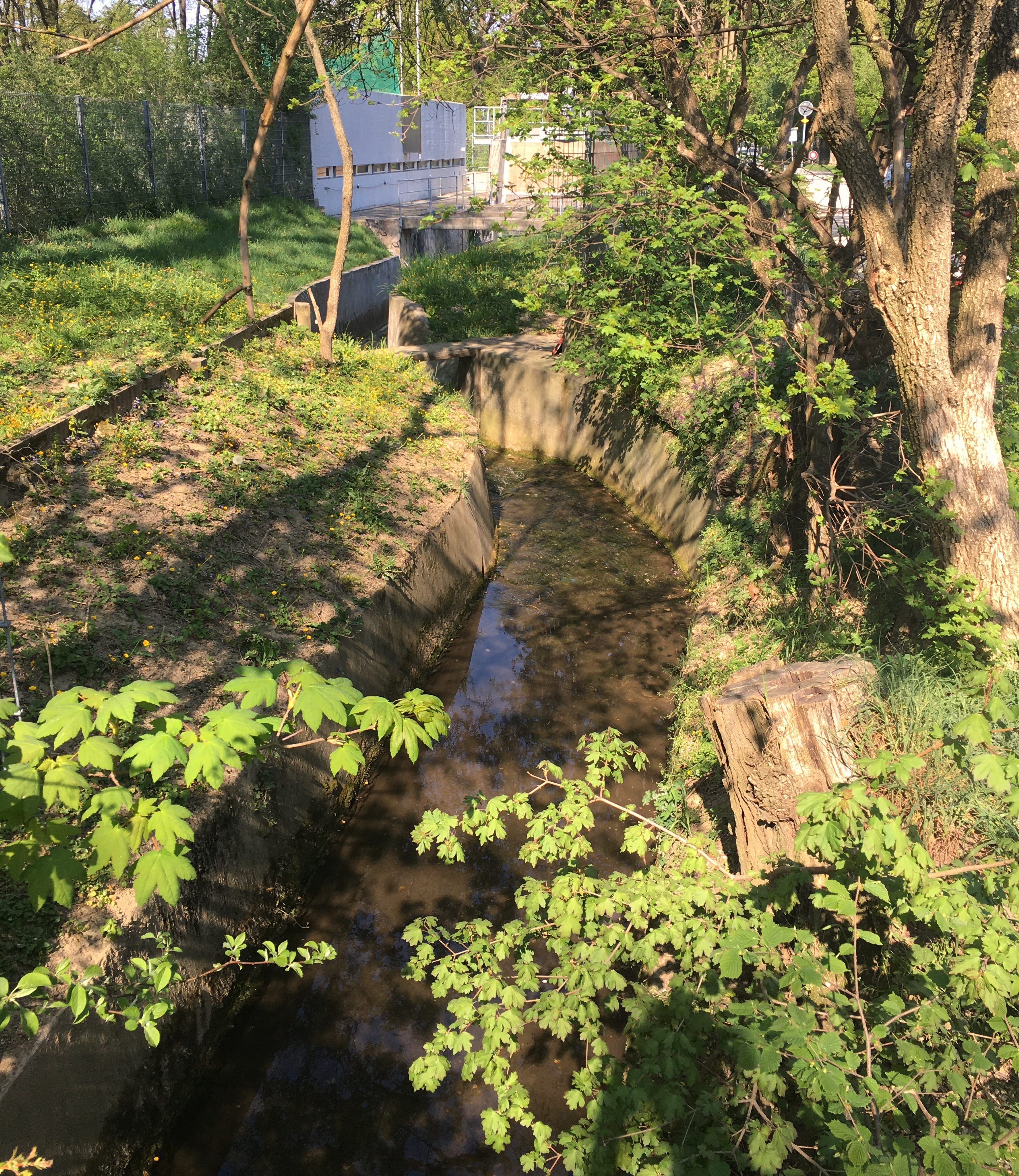 Bachgraben before disappearing in the underground